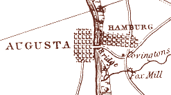 The Town of Hamburg, South Carolina posed across the Savannah River from rival Augusta, Georgia as depicted in Mills' Atlas of South Carolina, Edgefield District, 1825.